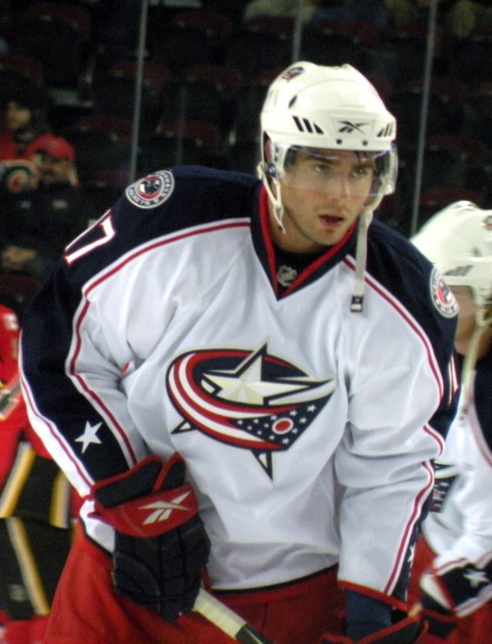 Columbus Blue Jackets forward Andrew Murray prior to a National Hockey League game against the Calgary Flames in Calgary.